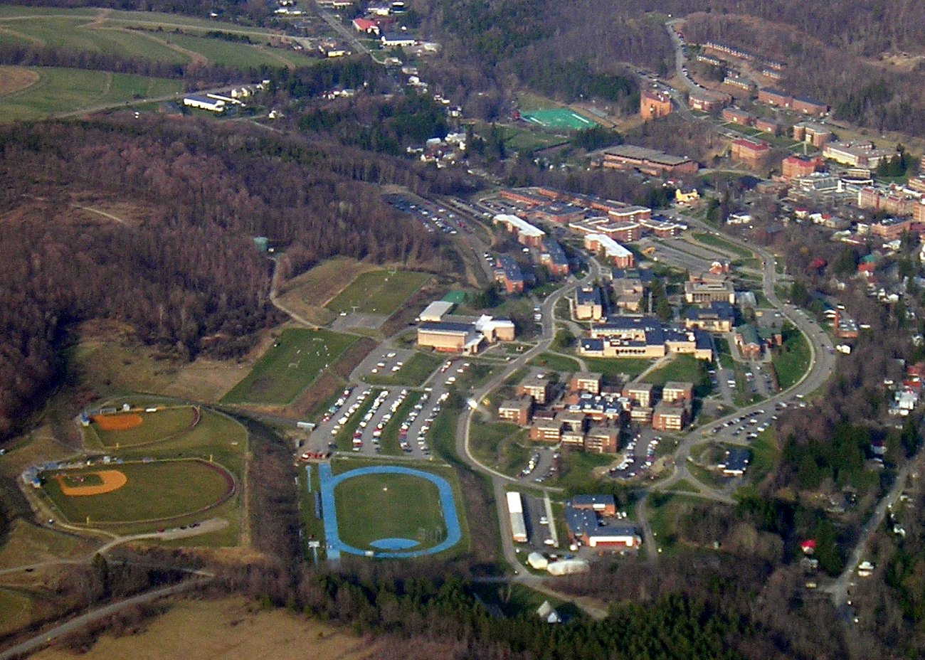 Aerial Photo of Alfred State College.